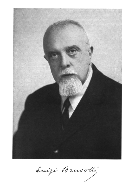 Luigi Brusotti